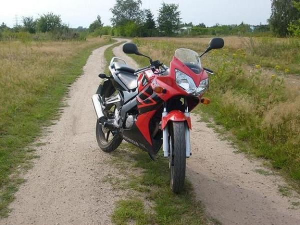 Honda CBR 125R